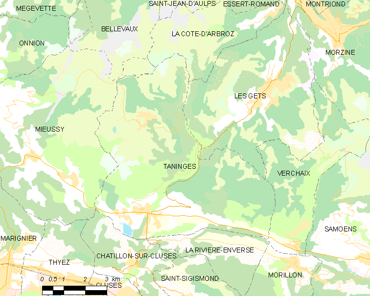 Map of French municipality Taninges